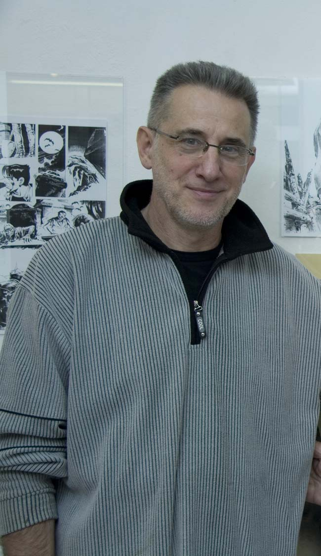 Goran Đukić Gorski, Serbian comics artist, at his own exhibition in Belgrade, Serbia (November 2, 2011) Српски (ћирилица): Горан Ђукић Горски, српски стрипар и илустратор, на отварању своје изложбе стрипа и илустрација, Београд (2. новембар 2011) Srpski (latinica): Goran Đukić Gorski, srpski stripar i ilustrator, na otvaranju svoje izložbe stripa i ilustracija, Beograd (2. novembar 2011)